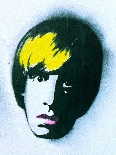 Brüno Gehard (a fictional gay Austrian fashion reporter portrayed by English comedian Sacha Baron Cohen) in art.